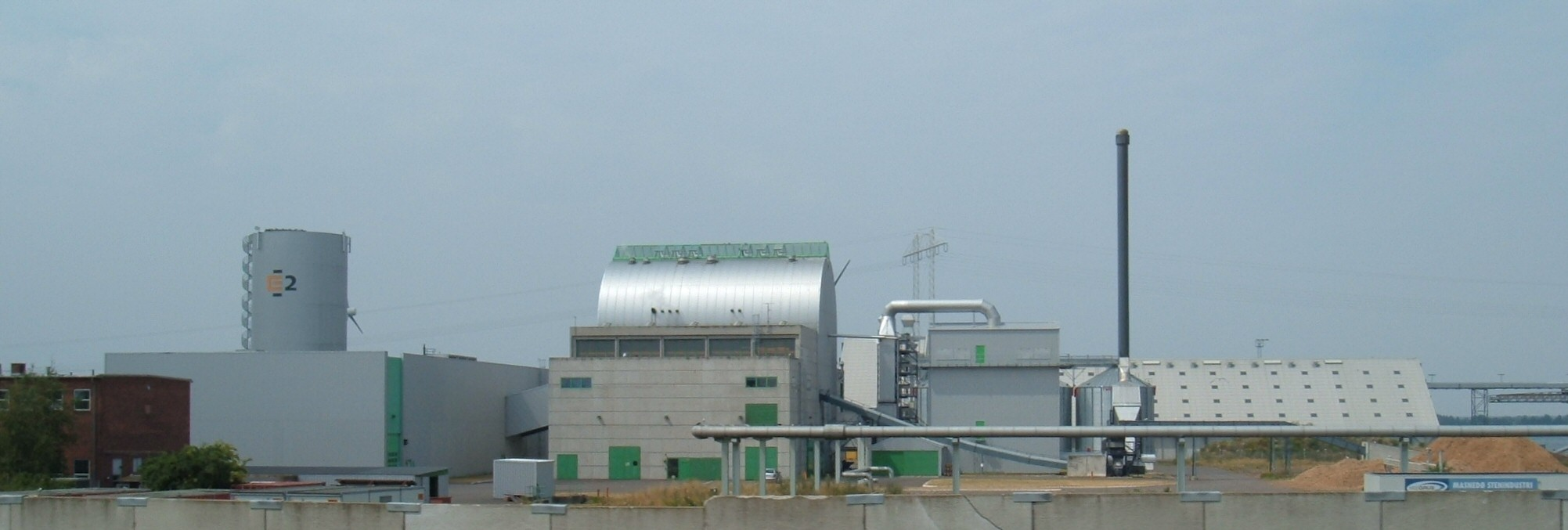 Masnedø straw-fired combined heat and power station on the island of Masnedø, Denmark.